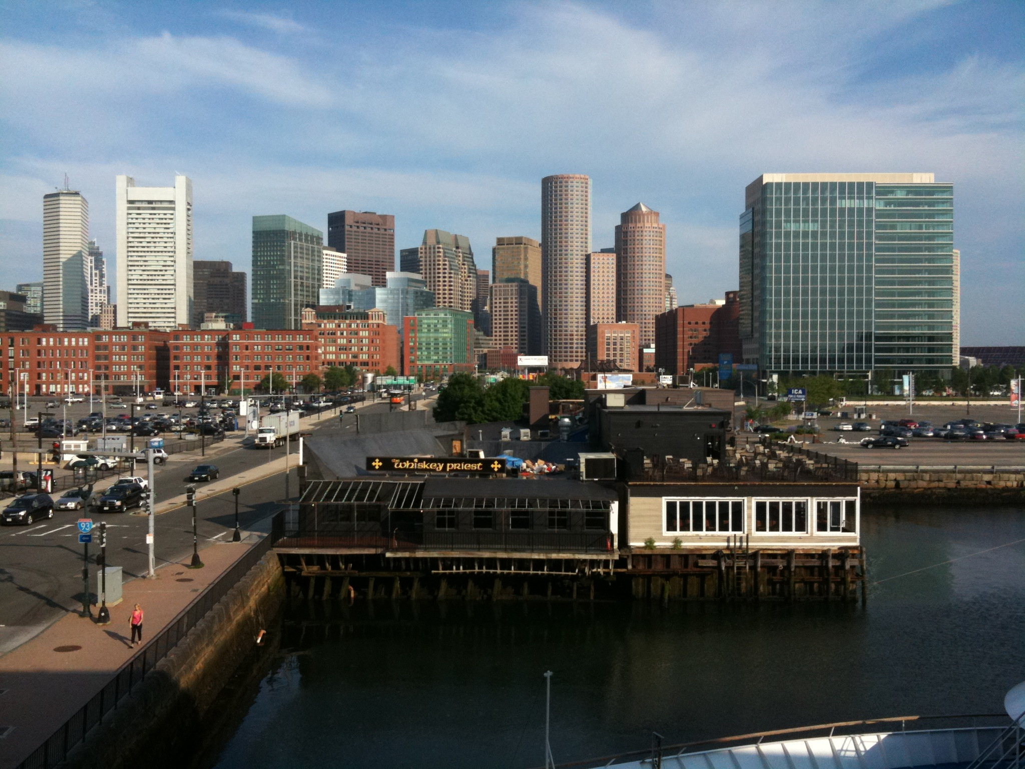 Boston skyline from the seaport